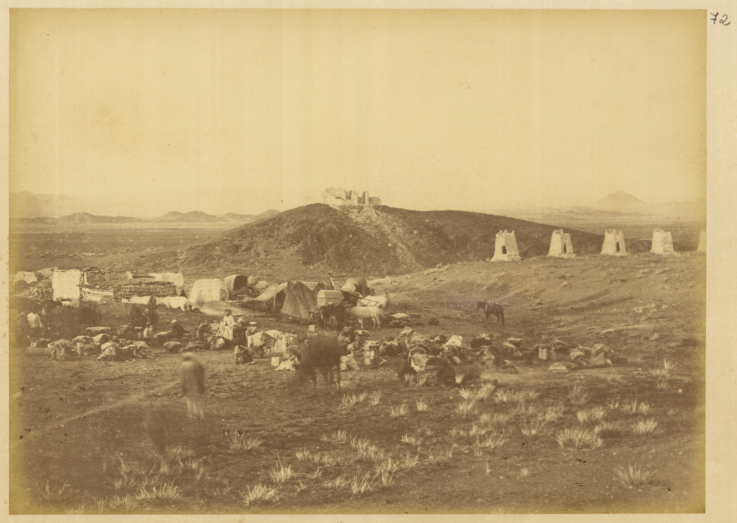 In 1874-75, the Russian government sent a research and trading mission to China to seek out new overland routes to the Chinese market, report on prospects for increased commerce and locations for consulates and factories, and gather information about the Dungan Revolt then raging in parts of western China. Led by Lieutenant Colonel Iulian A. Sosnovskii of the army General Staff, the nine-man mission included a topographer, Captain Matusovskii; a scientific officer, Dr. Pavel Iakovlevich Piasetskii; Chinese and Russian interpreters; three non-commissioned Cossack soldiers; and the mission photographer, Adolf Erazmovich Boiarskii. The mission proceeded from Saint Petersburg to Shanghai via Ulan Bator (Mongolia), Beijing, and Tianjin, and then followed a route along the Yangtze River, along the Great Silk Road through the Hami oasis, to Lake Zaysan, back to Russia. Boiarskii took some 200 photographs, which constitute a unique resource for the study of China in this period. Most of the photographs are included in this album, which later became part of the Thereza Christina Maria Collection assembled by Emperor Pedro II of Brazil and given by him to the National Library of Brazil. Camps; Carriages and carts; Forts and fortifications; Horse-drawn vehicles; Horses; Memory of the World; Mountains